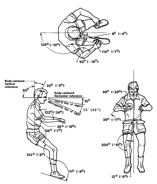 The neutral body posture (NBP) is the posture the human body naturally assumes in microgravity. The neutral body posture shown here was created from measurements of 12 people in the microgravity environment onboard Skylab.